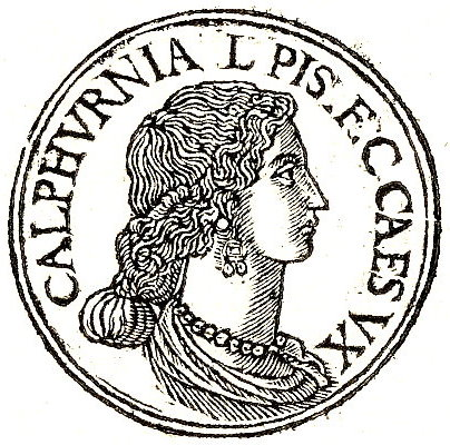 Calpurnia Pisonis was a daughter of Lucius Calpurnius Piso Caesoninus, was a Roman woman, third and last wife of Julius Caesar.